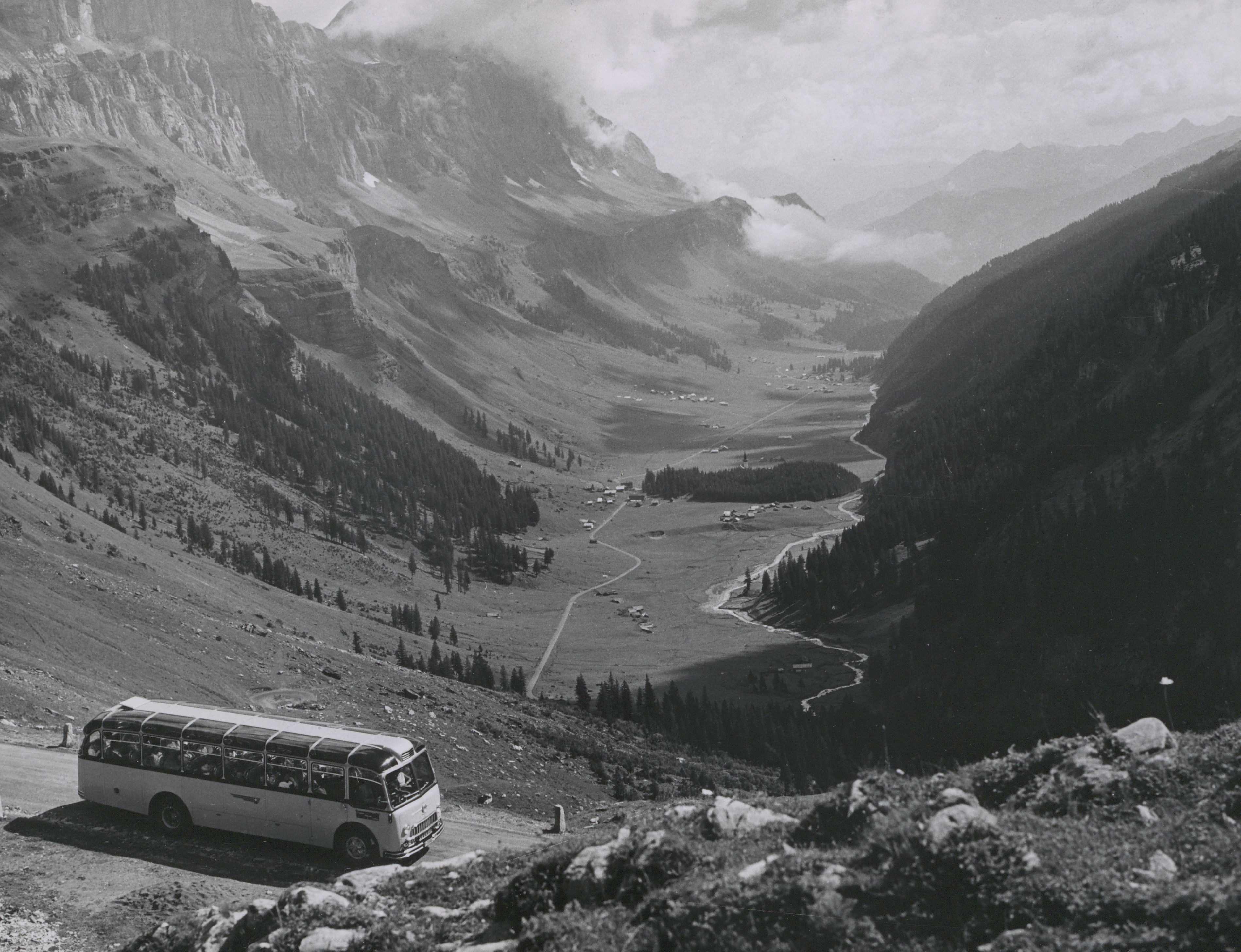 Postbus trip over the Klausen Pass